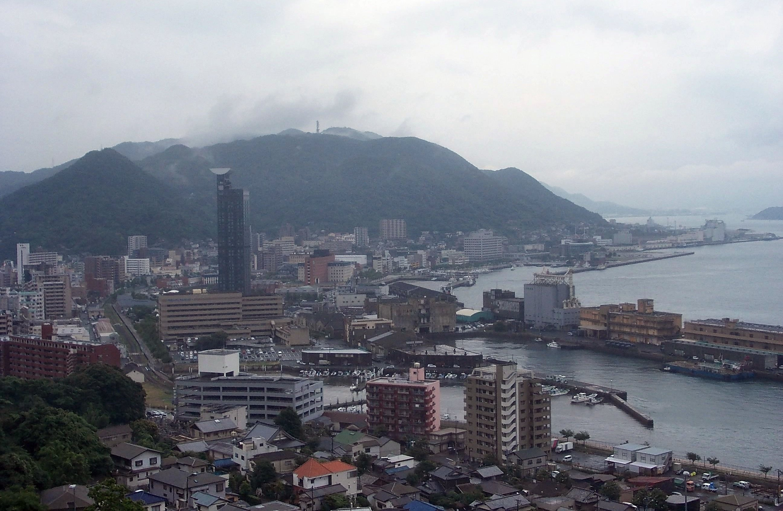 A view of the entire Mojiko district from Mekari Park.